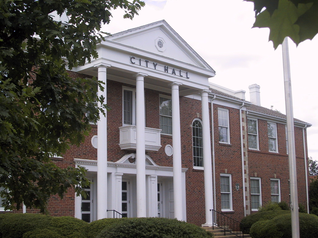 Personal photo made by Slipdigit